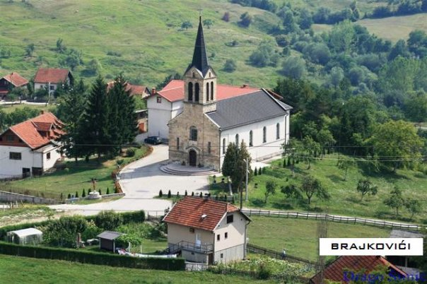 St. Peter and St. Paul's Church in Brajkovići ,Travnik